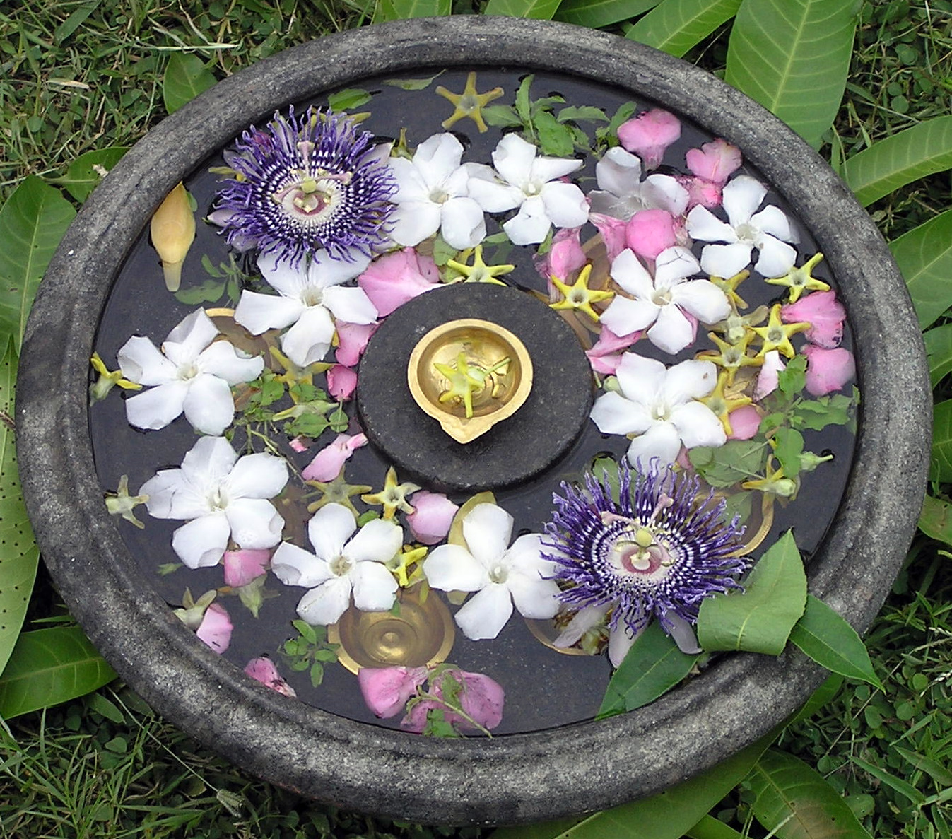 Traditional flower arrangements in uruli, typical for Vishu and Onam celebrations (Hindu festivals of Kerala)